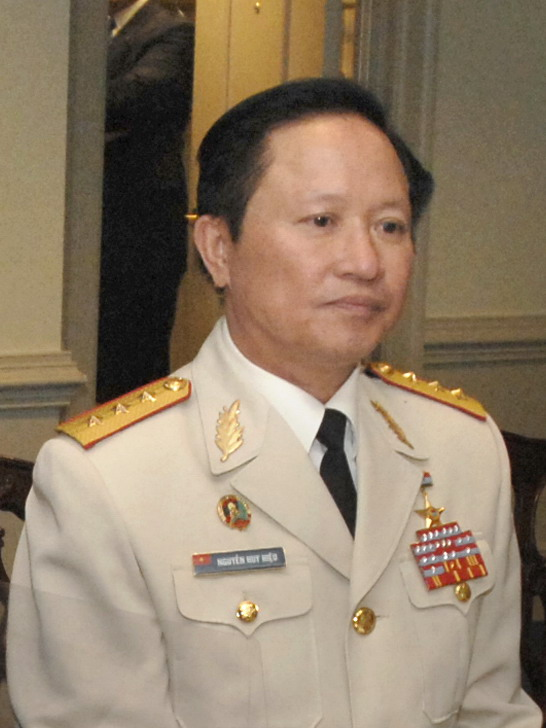 Col. Gen. Nguyễn Huy Hiệu, Deputy Minister of the Defence Ministry of Vietnam.